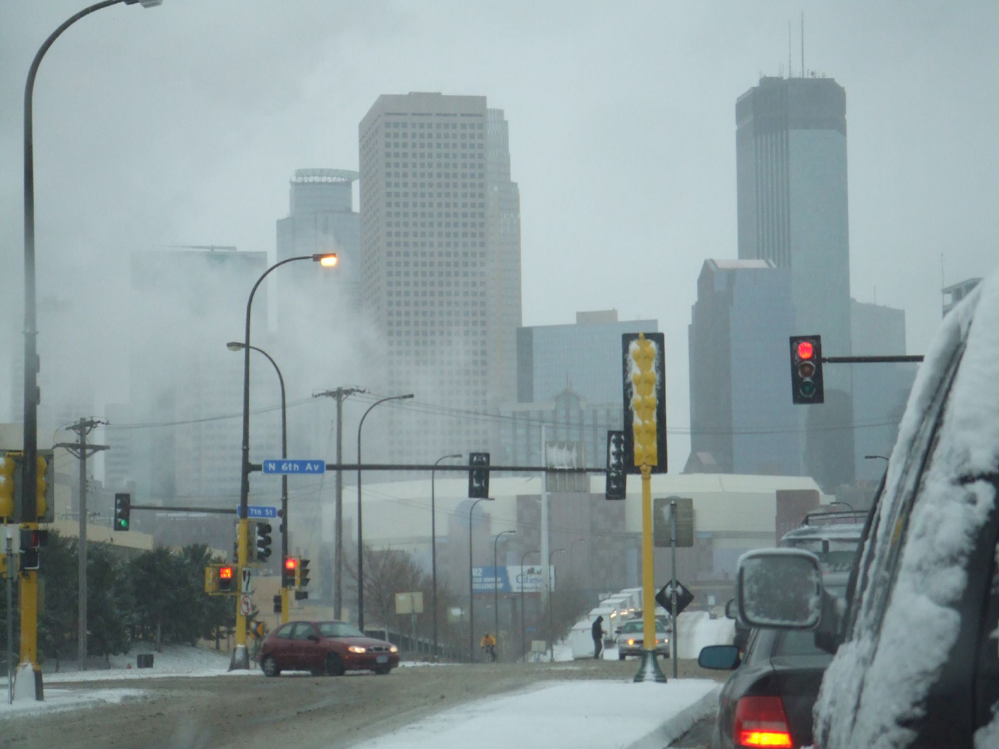 Minneapolis, Minnesota (USA) in winter.